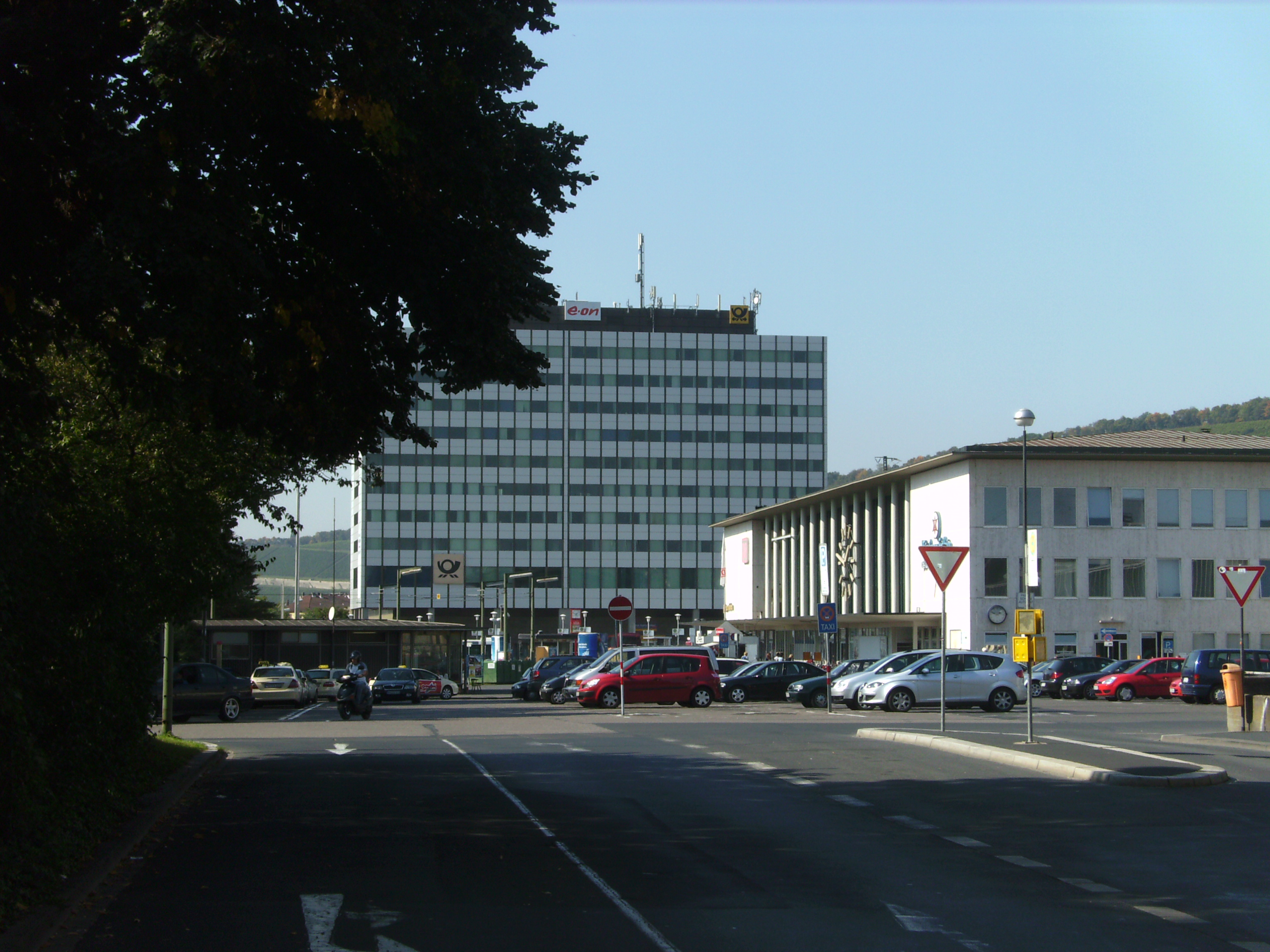 The parking area of Würzburg main station